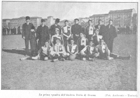 Andrea Doria in 1908.